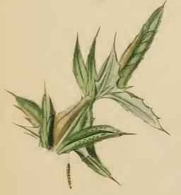 Stainton’s Natural History of the Tineina (1855–1873): Scrobipalpa acuminatella a mined thistle leaf